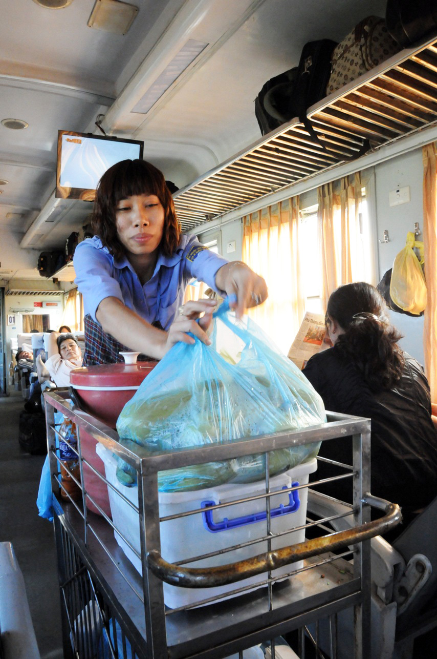 Danang to Nha Trang by train. A Vietnam Railways employee sells corn from a cart.